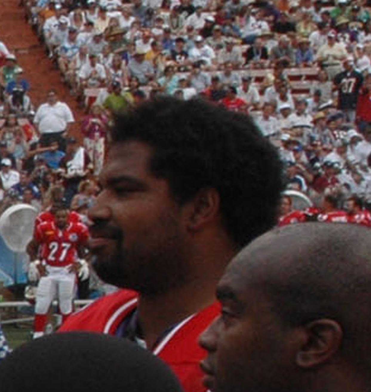 American football player Jonathan Ogden at the Pro Bowl